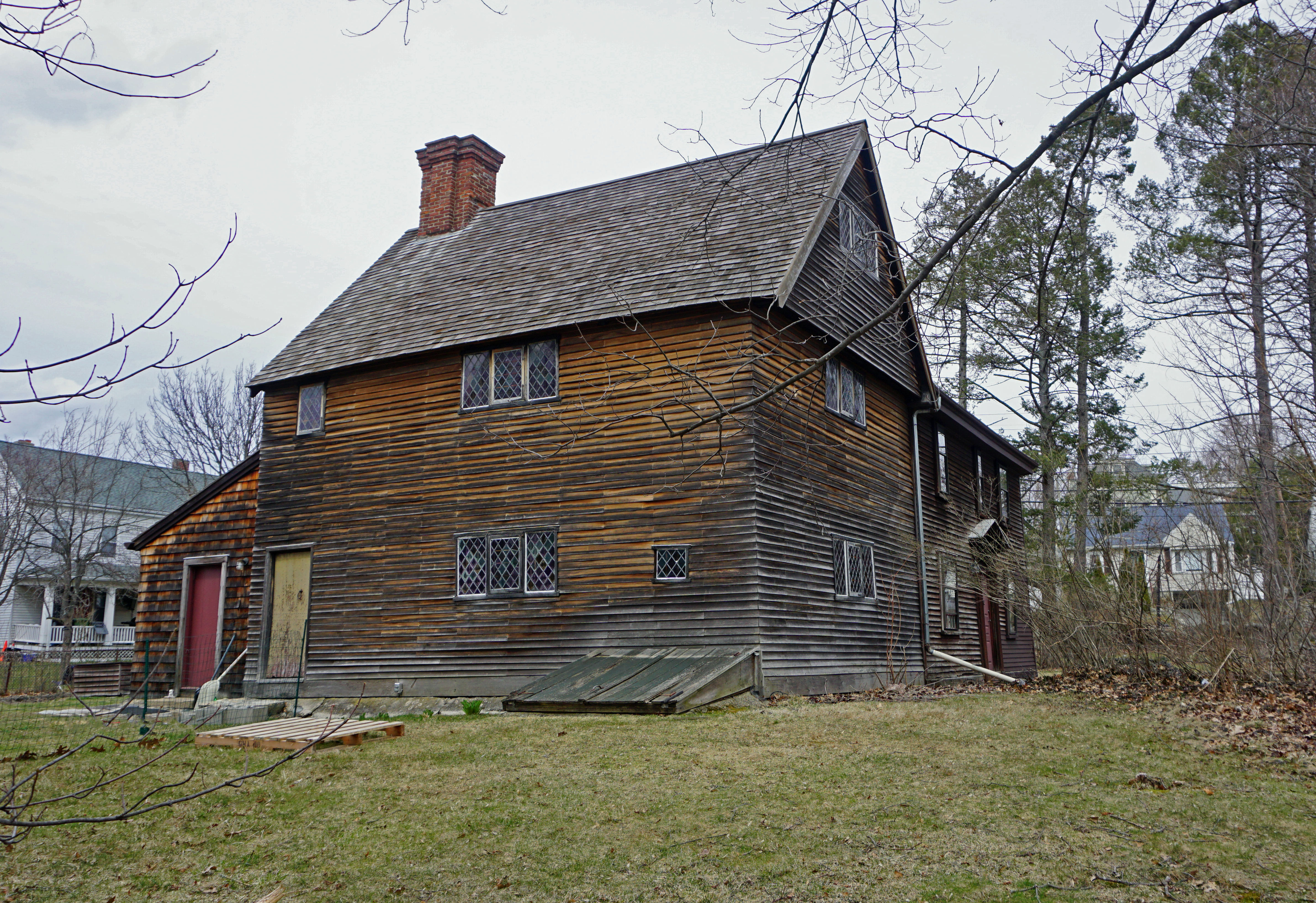 Photo of the Abraham Browne House c. 1694 located at 562 Main Street, Watertown, Massachusetts